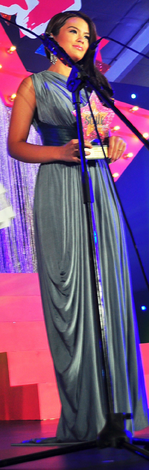 Philippine actress Bea Binene receiving award at the 2013 Candy Style Awards